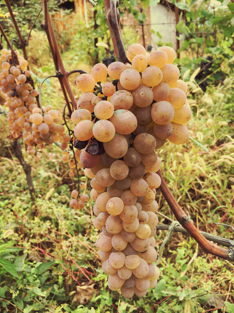 Rkatsiteli grapes from Gurjaani, Gurjaanis Raioni, Georgia